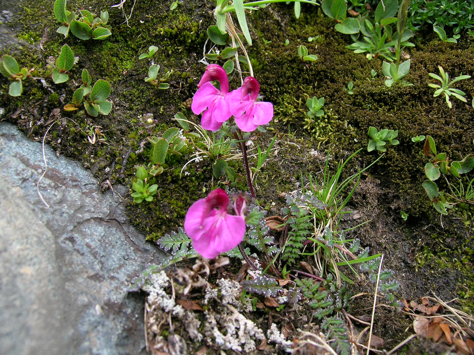 Pedicularis kerneri Zermatt, beneath Gornergrat (Kanton Wallis, Switzerland), 2800 m Author: Roland Teuscher – own photograph Date: 2.08.06